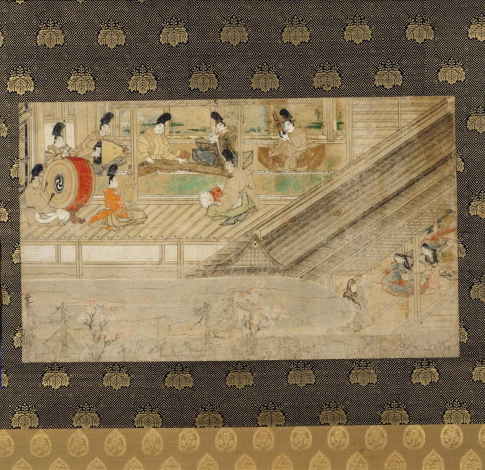 Fragment of the Sumiyoshi monogatari emaki, detached and mounted as a kakemono. Tokyo National Museum.